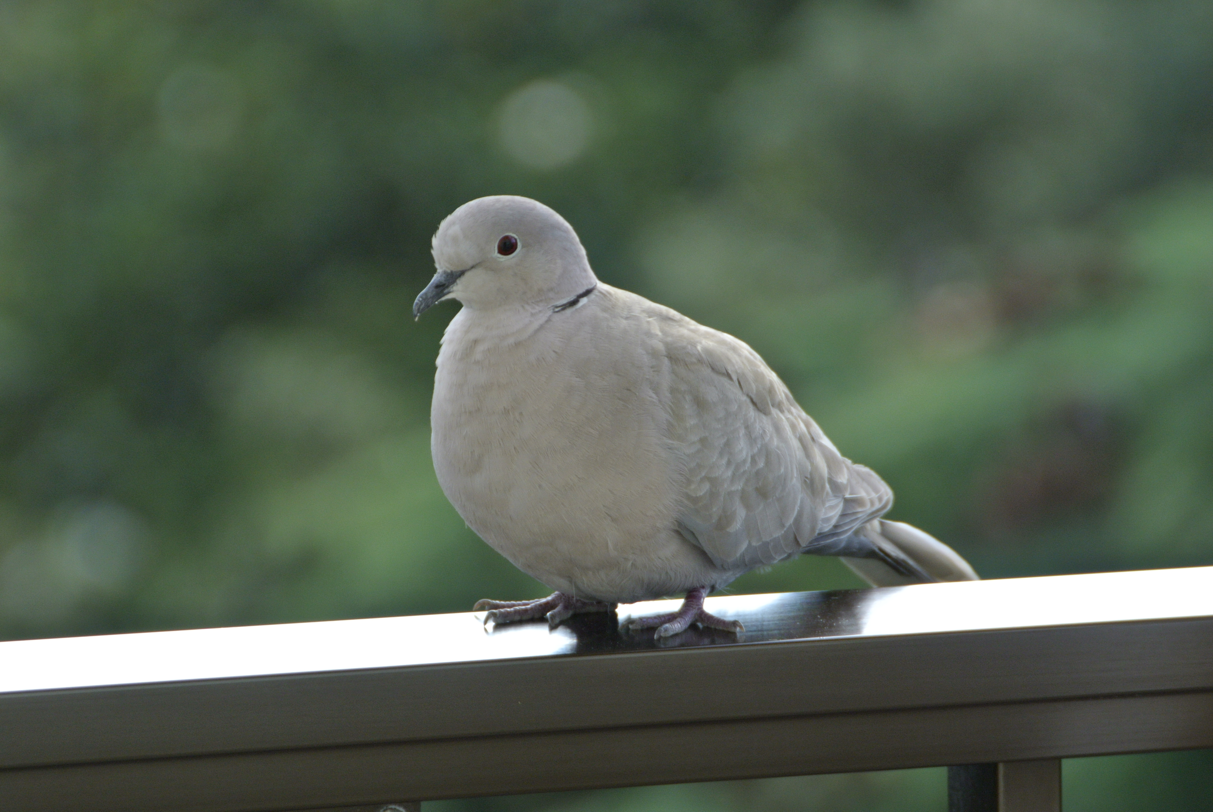 Eurasian collared dove, photographed at Livorno (Italy)